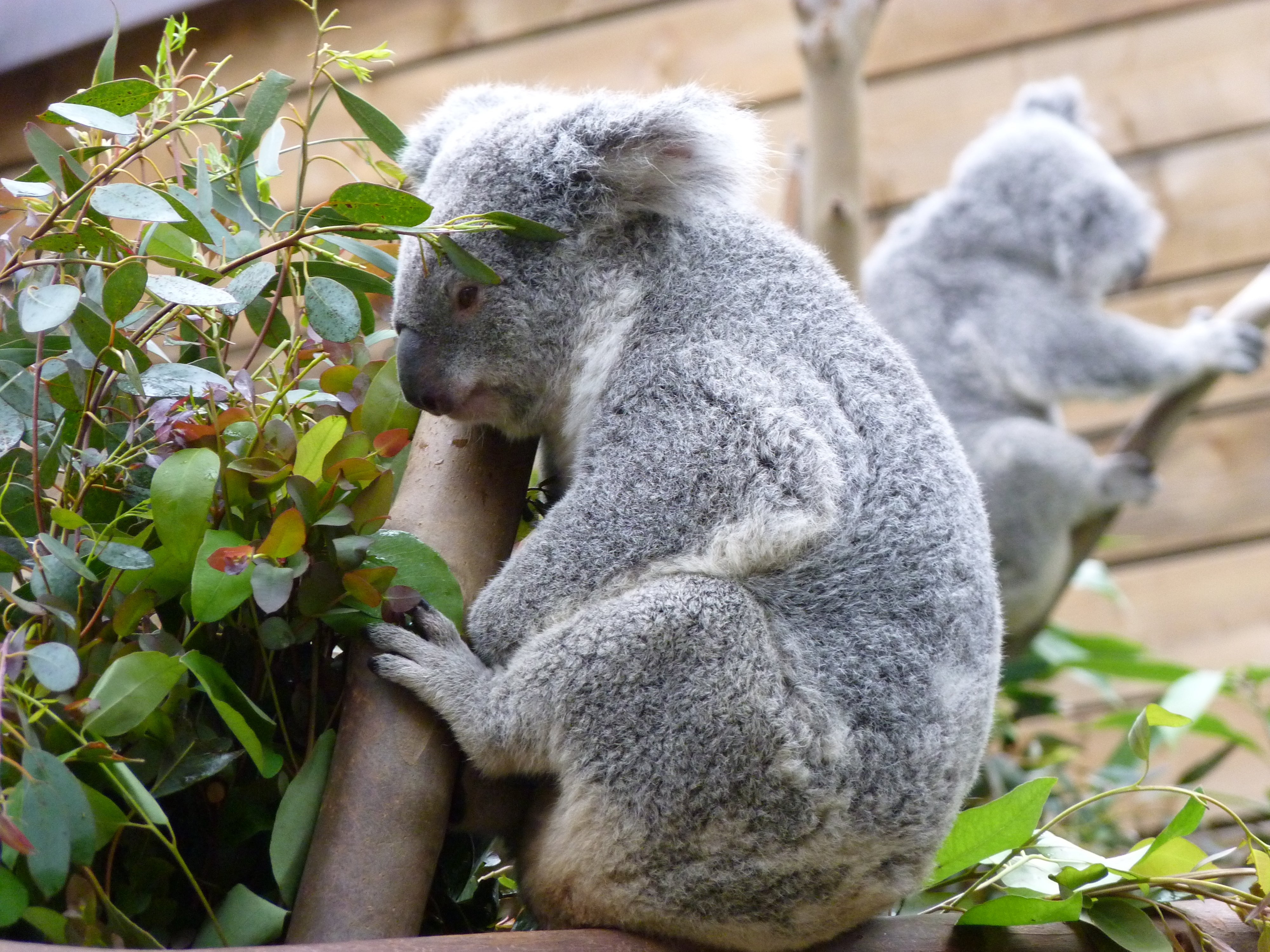 Koala in Pairi Daiza, May 2016